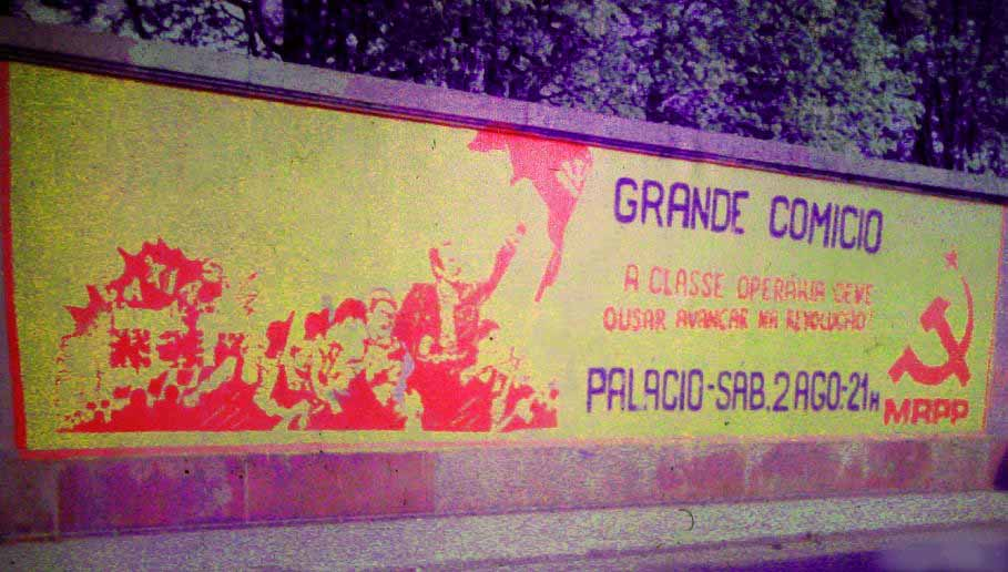 MRPP The working class must dare to move forward in the revolution